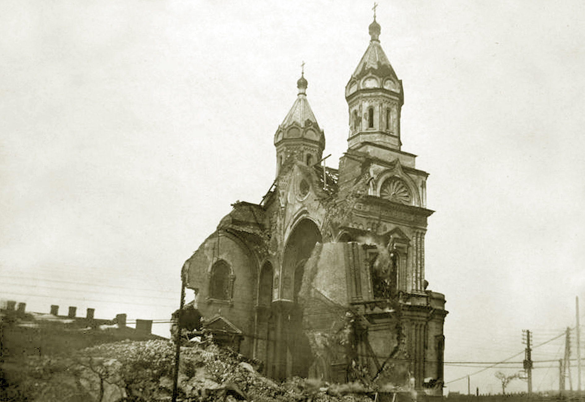 Church to the Saint martyr Miron (built 1849-1855, 1943 pulled down) on the bank of the Obvodny canal, regiment´s church of the His majesty Lifeguard Jaeger Regiment to Saint Petersburg, Russia before 1934.